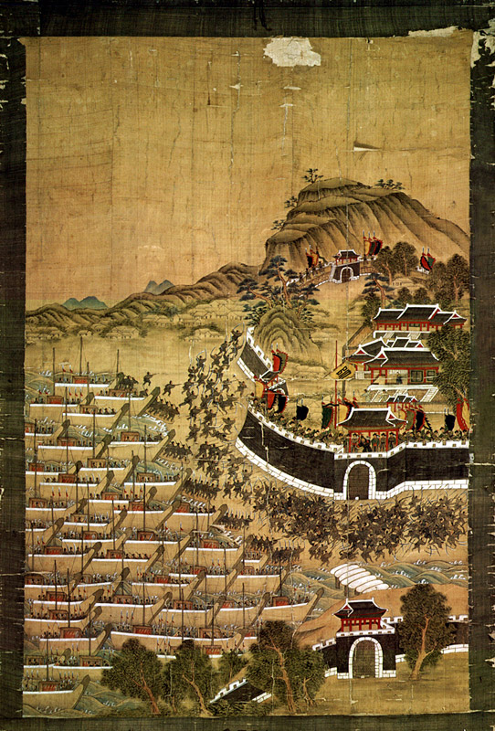 Painting of defense of Busanjin Fortress. The Japanese invasion of Busan.